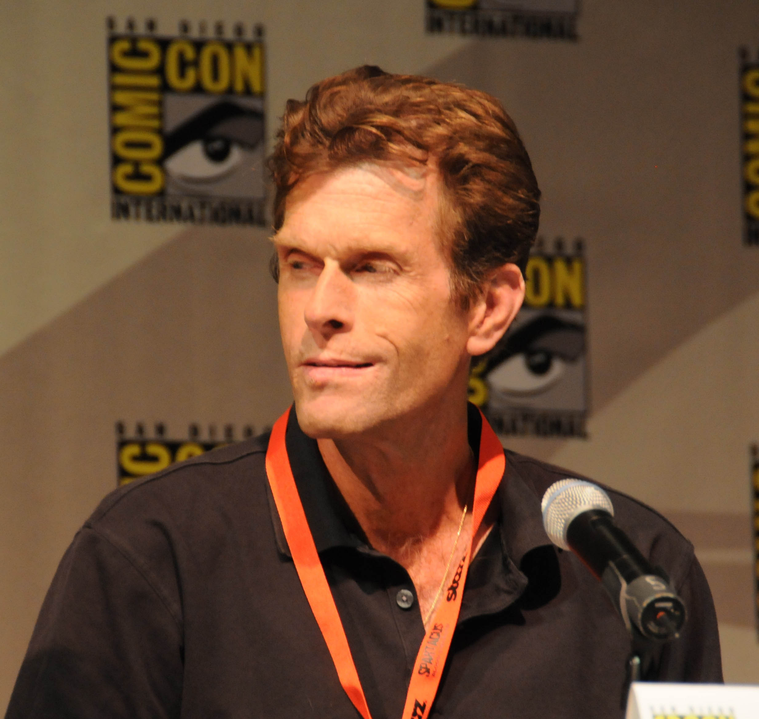 Voice actor Kevin Conroy at the Batman: Arkham Asylum;; Game Panel at ComicCon 2009.